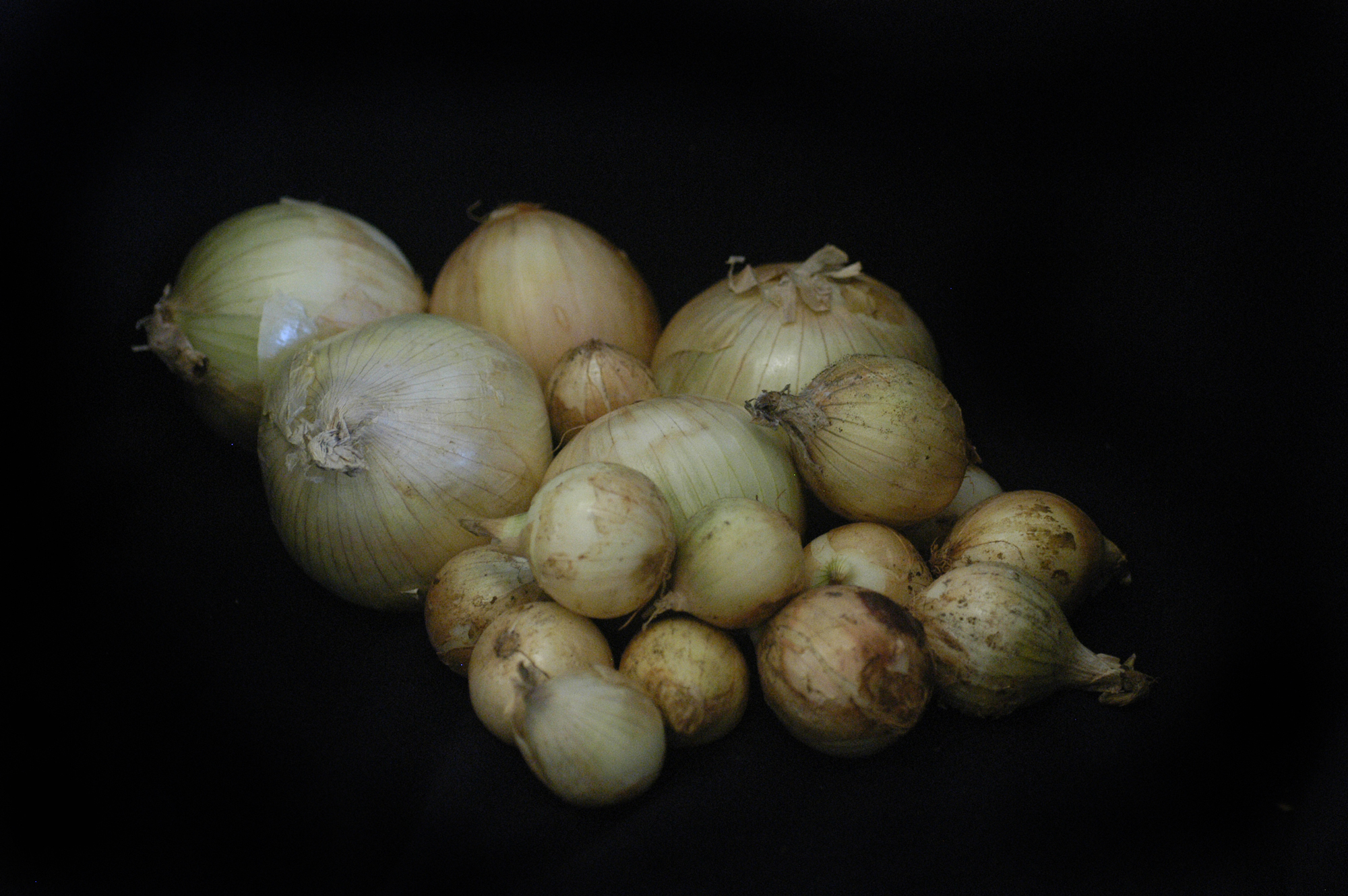 Onion (Allium cepa) bulb from organic farming and Agribusiness